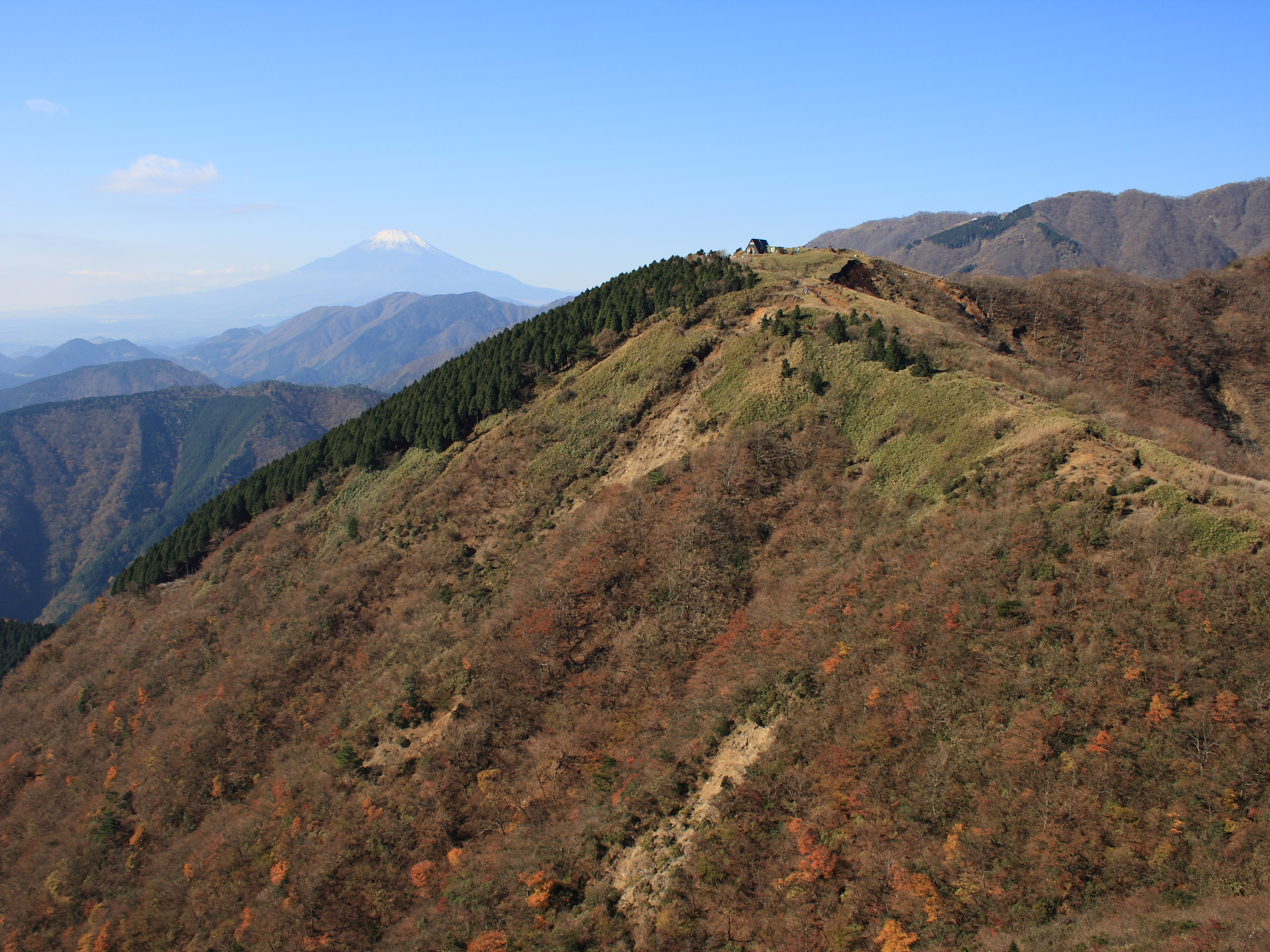 Mt.Karasuo (Karasuo-yama), as seen from Mt.Sannotō (San-no-tō) at Mts.Tanzawa, Kanagawa, Japan.